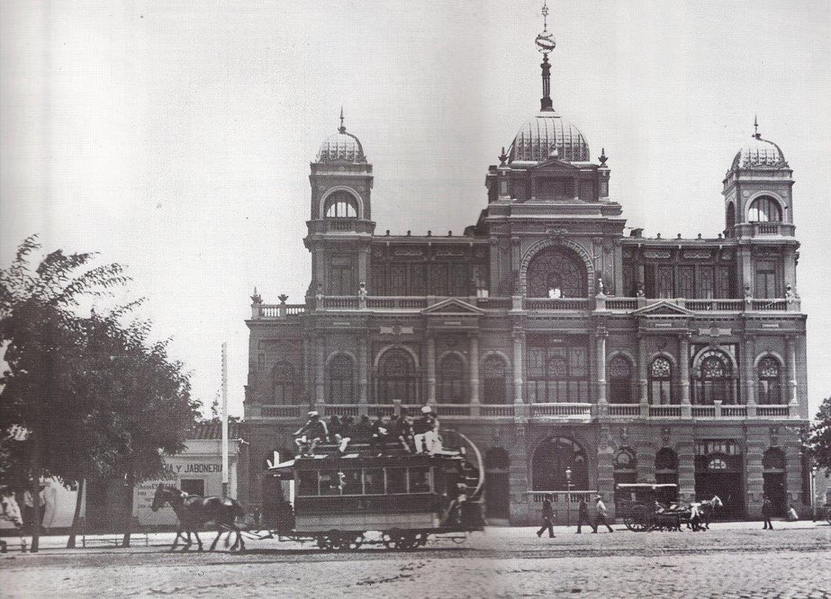 elguin palace, in Santiago of Chile